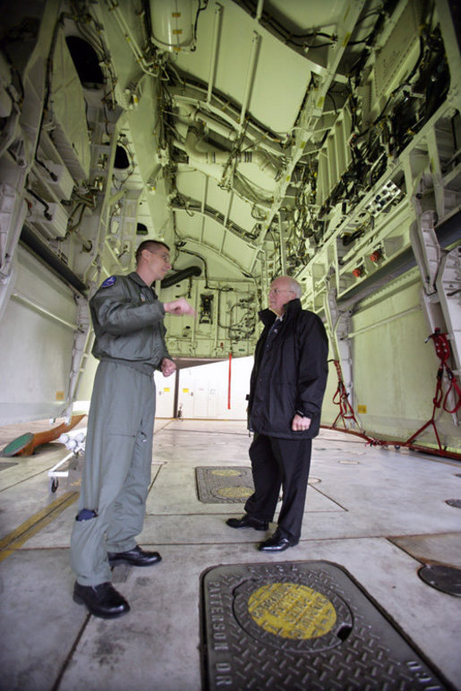 Vice President's Remarks at a Rally for the B-2 Bomber Forces Vice President Dick Cheney stands in the bomb bay of a B-2 Stealth bomber with Lt. Col. Bill Eldridge, left, during a tour at Whiteman Air Force Base, Missouri, Friday, October 27, 2006. White House photo by David Bohrer